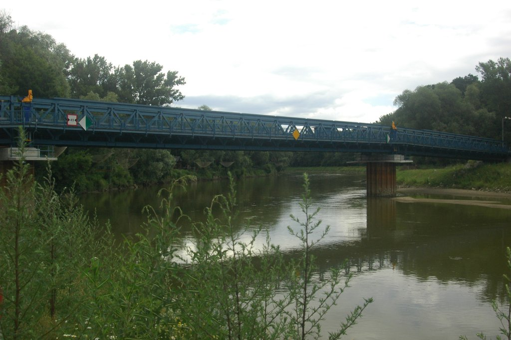 Morava, bridge between Austria and Slovakia